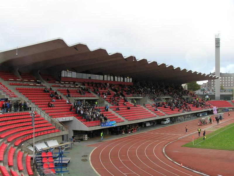 A picture of Ratina Stadion